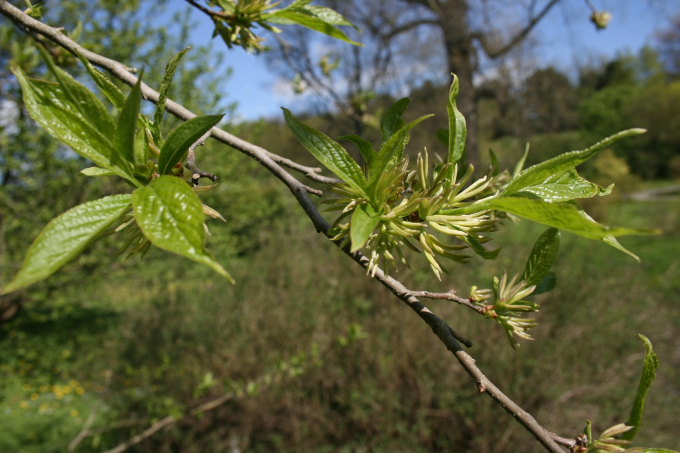 Eucommia ulmoides: Flowering shoot